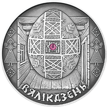 "Vialikdzen" Silver commemorative coins, denomination: 20 rubles